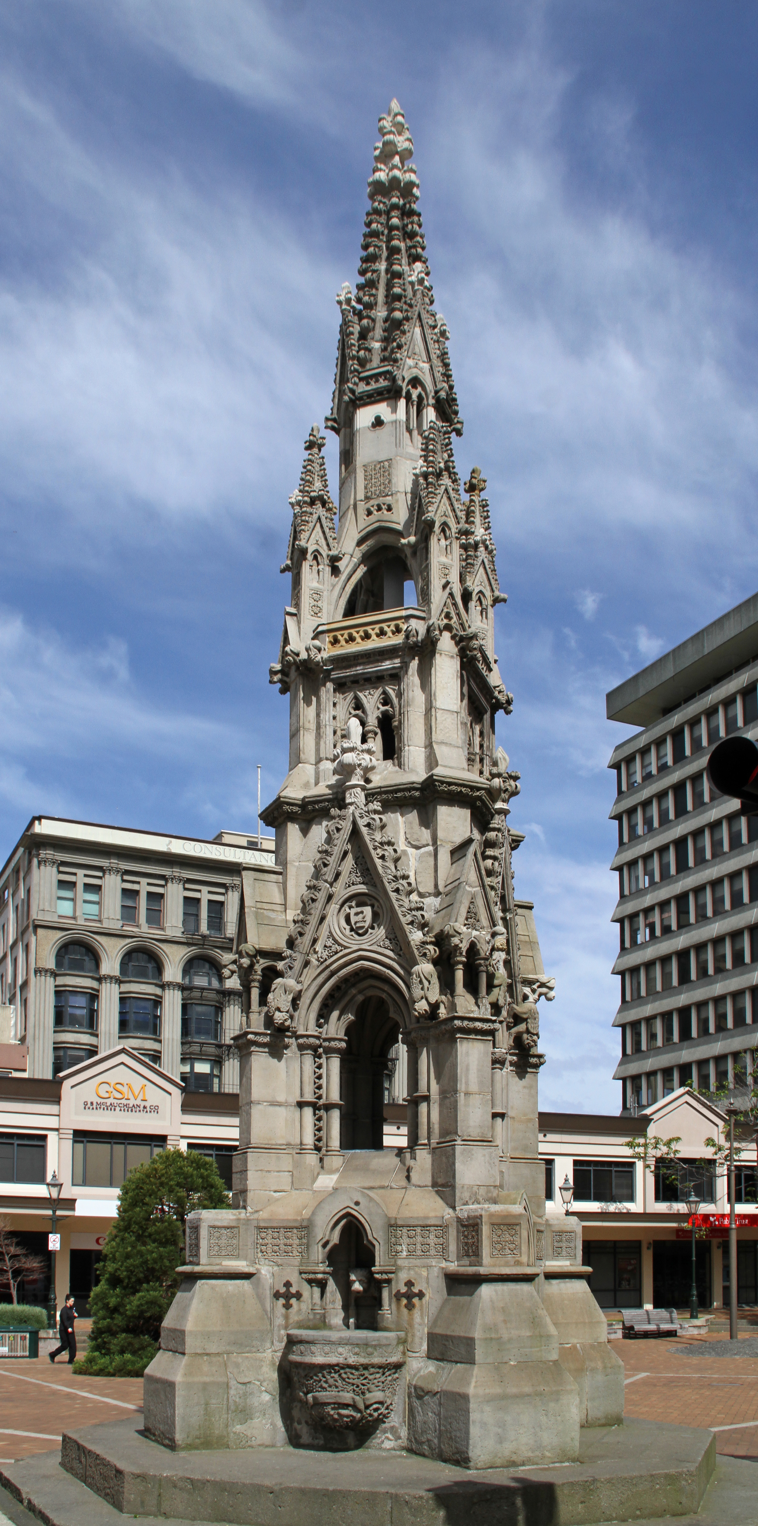 Dunedin Fountain